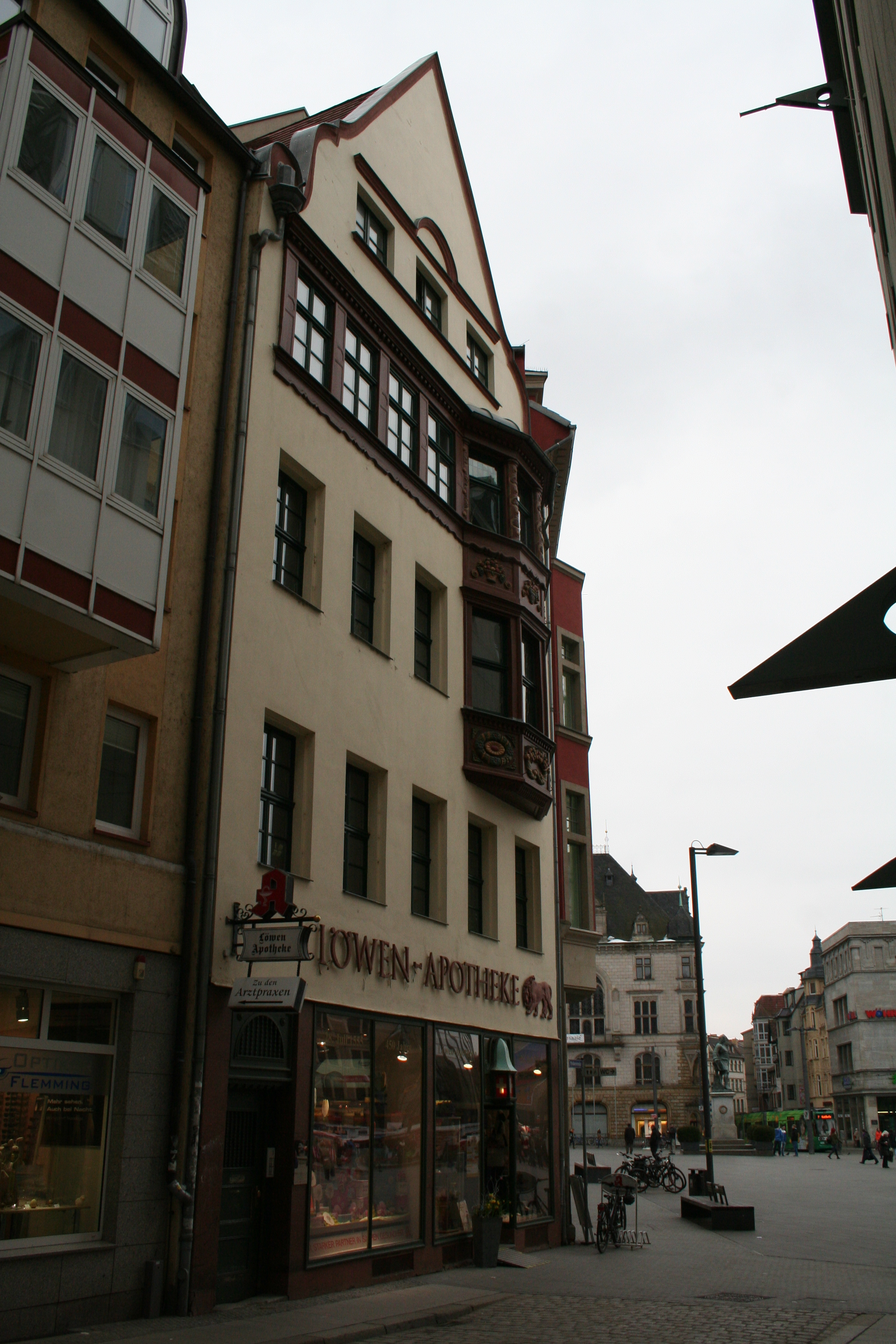 Brüderstraße 17 in Halle (Saale)